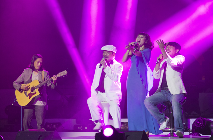 12 Aug 2012 / Hanoi, Vietnam.